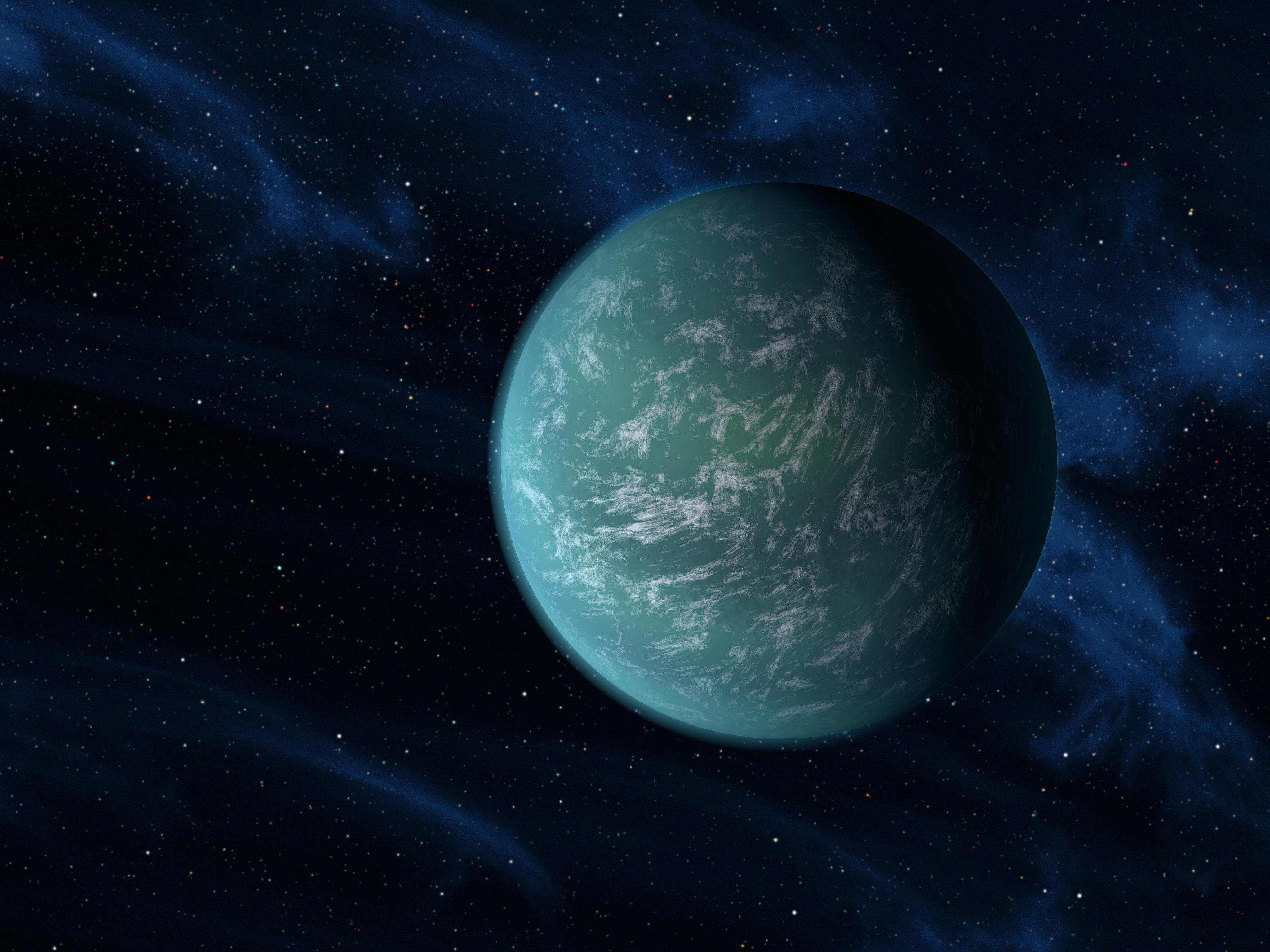 This artist's conception illustrates Kepler-22b, a planet known to comfortably circle in the habitable zone of a sun-like star. It is the first planet that NASA's Kepler mission has confirmed to orbit in a star's habitable zone -- the region around a star where liquid water, a requirement for life on Earth, could persist. The planet is 2.4 times the size of Earth, making it the smallest yet found to orbit in the middle of the habitable zone of a star like our sun. Scientists do not yet know if the planet has a predominantly rocky, gaseous or liquid composition. It's possible that the world would have clouds in its atmosphere, as depicted here in the artist's interpretation.